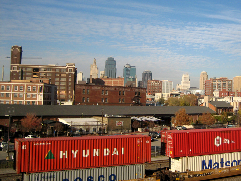 Freight train passing just to the south of the Freight House in Kansas City